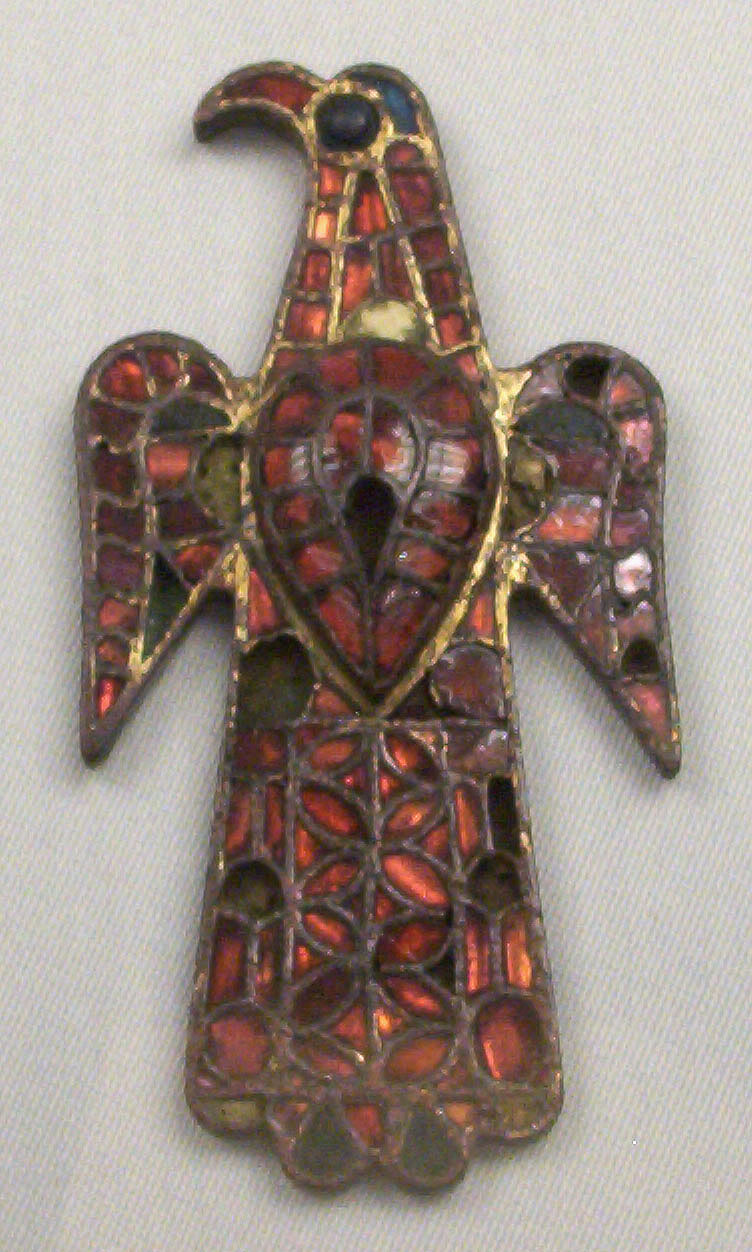 Eagle-shaped Visigothic fibula.